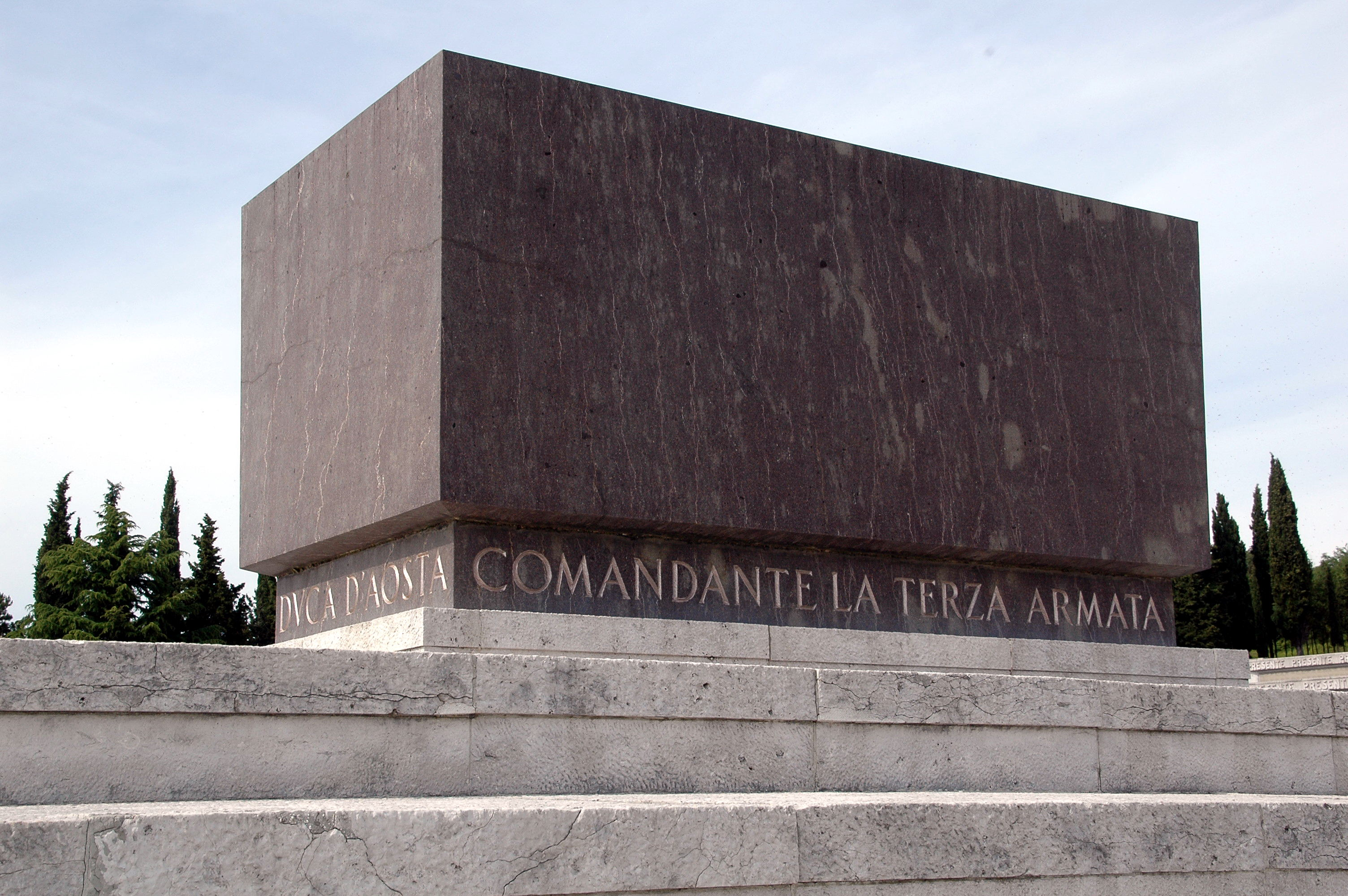 Tomb of Emanuele Filiberto, 2nd Duca d'Aosta, at Fogliano-Redipuglia, Friuli, Italy